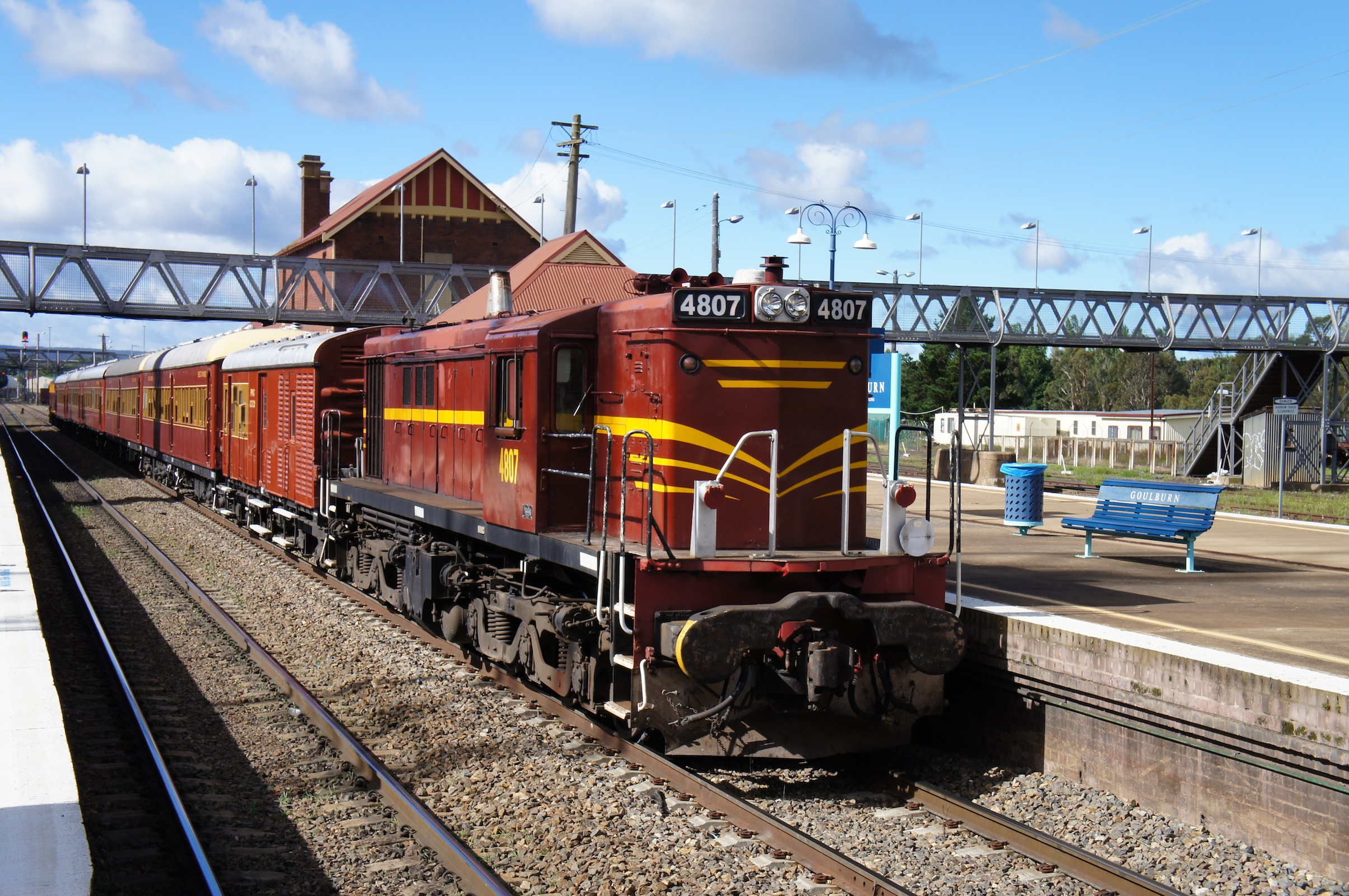 ARHS ACT's Goulburn Heritage Festival train at Goulburn station.